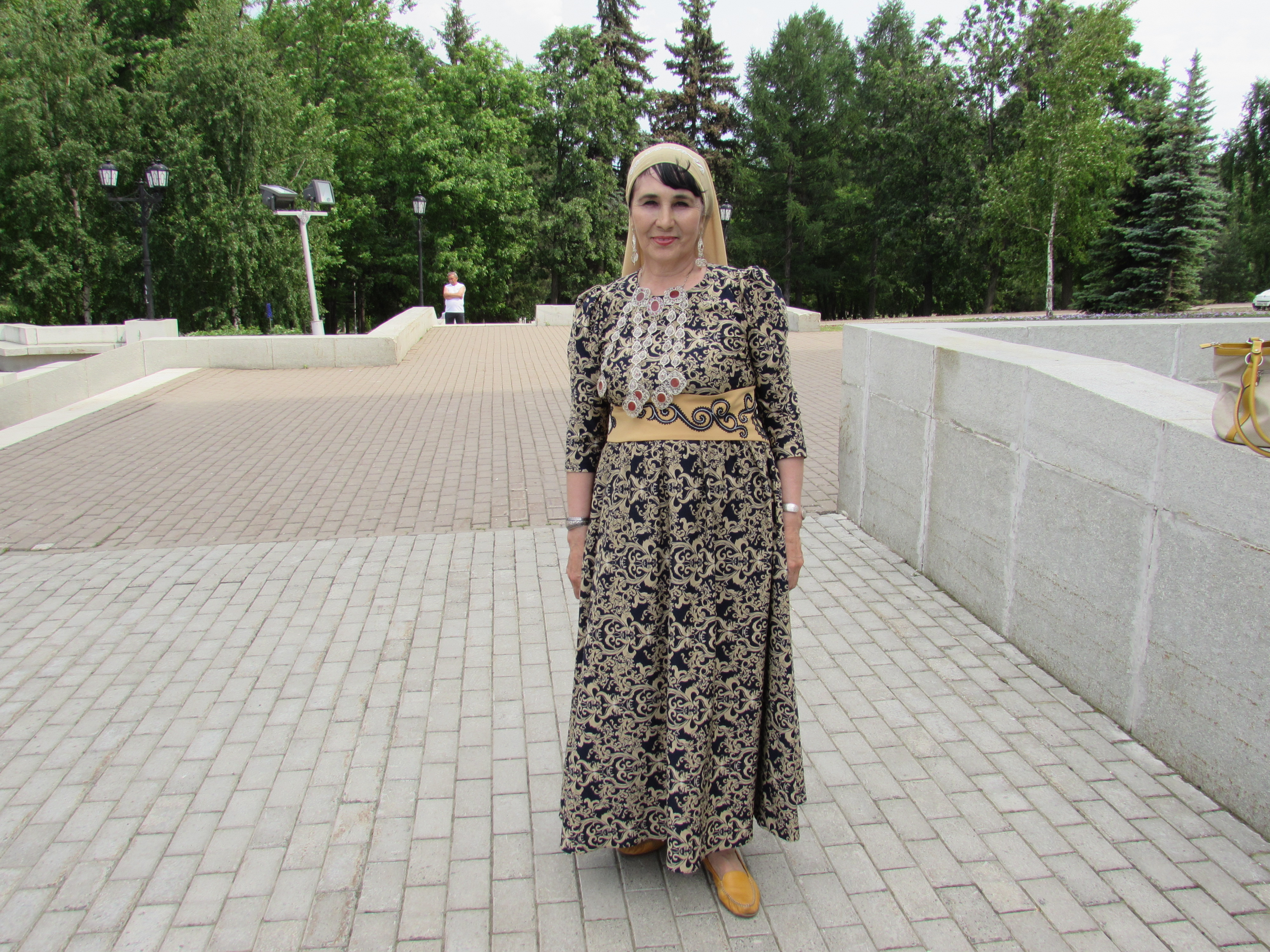 Holiday Bashkir national costume